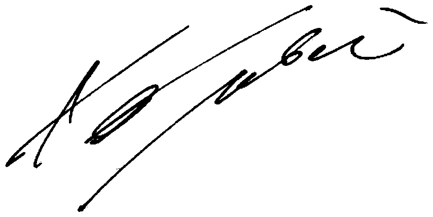 Signature of Alexander Dubček.